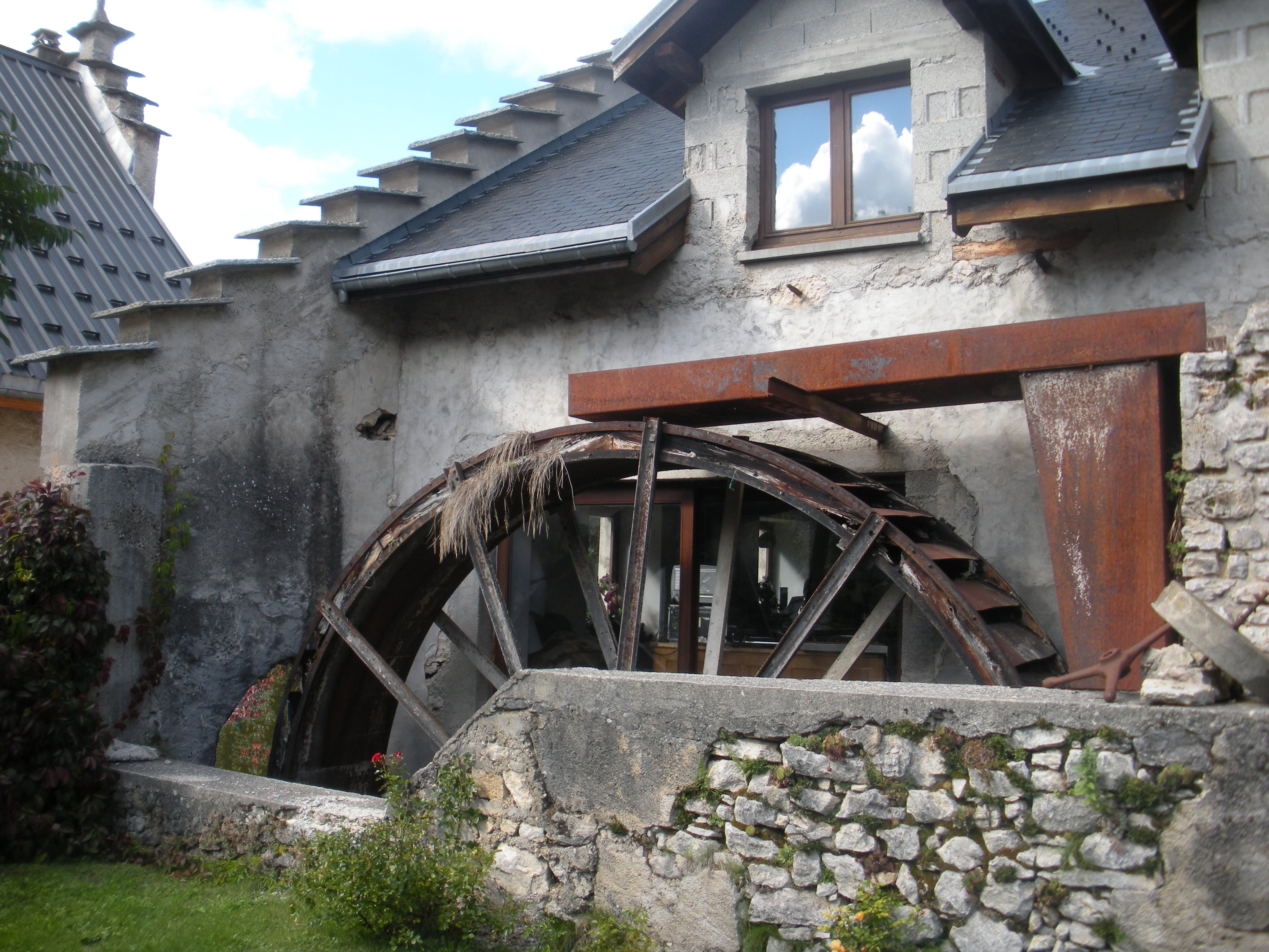 Watermill. On the front there is a wheel.